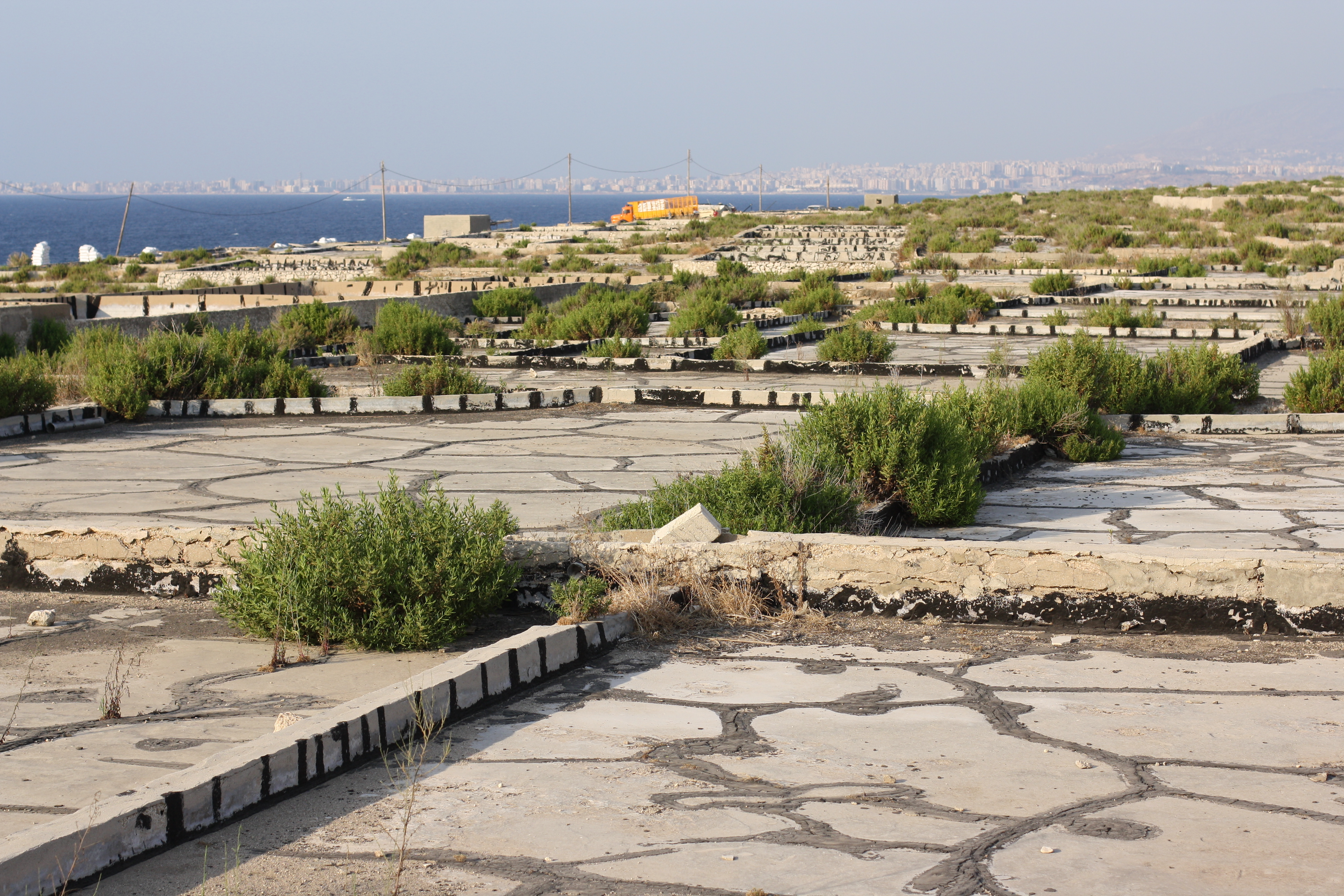 Old salt pans near Enfeh next to Tripoli (North Lebanon)